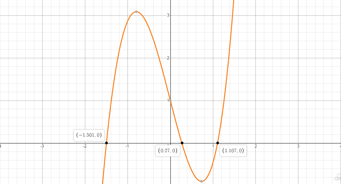 all the roots are determined in the graph. as it's clear whole the used algorithms are just able to find one root in a given interval.